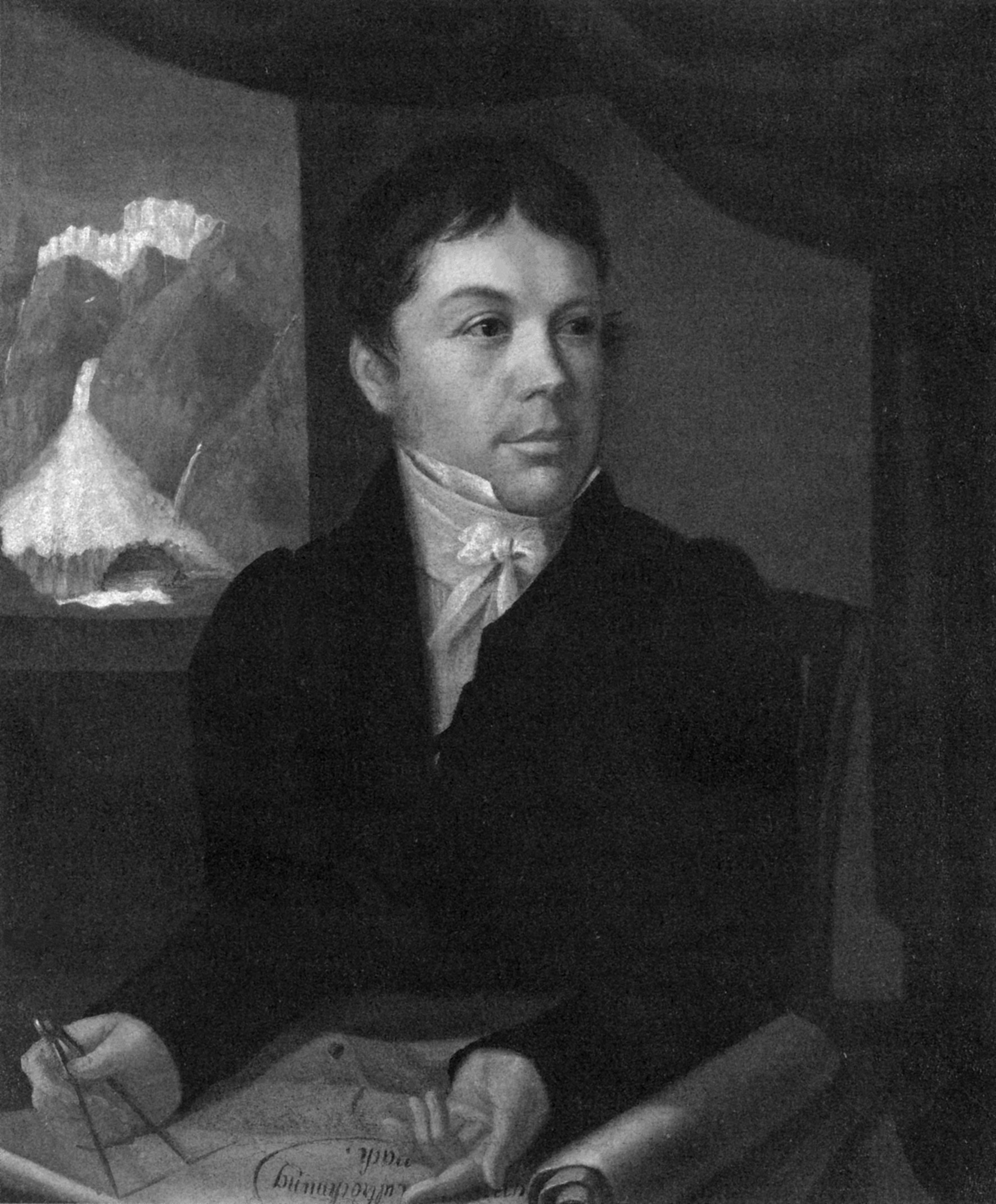 Portrait of the Swiss engineer and glaciologist Ignaz Venetz, with a painting of his most famous engineering project, the tunnel at the Giétro Glacier dam, in the background